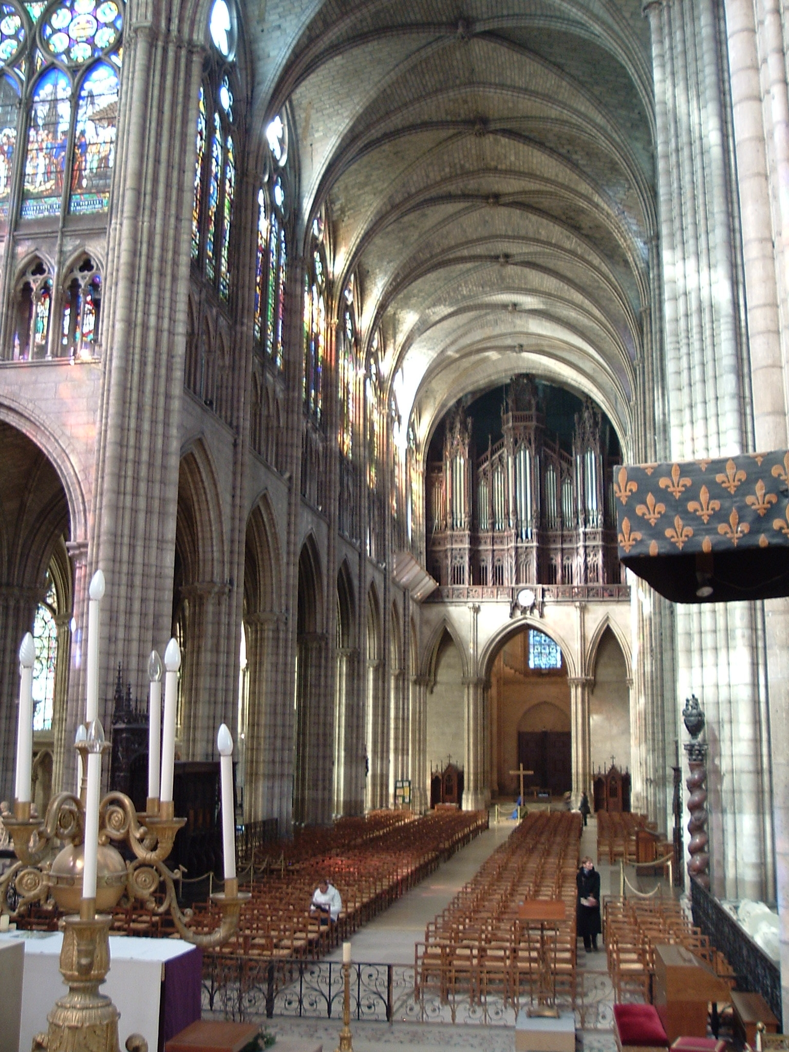 The nave of the Basilica of St. Denis. Shot from the chancel.